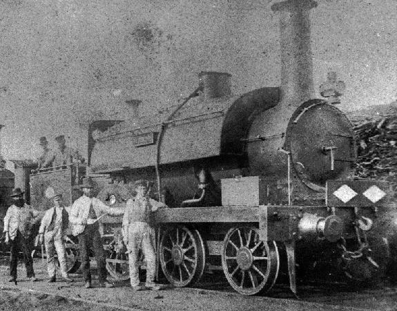 Broad gauge 4-4-0ST Heron. This locomotive was built for the Carmarthen and Cardigan Railway but, by the time the photograph was taken, was working on the South Devon Railway.